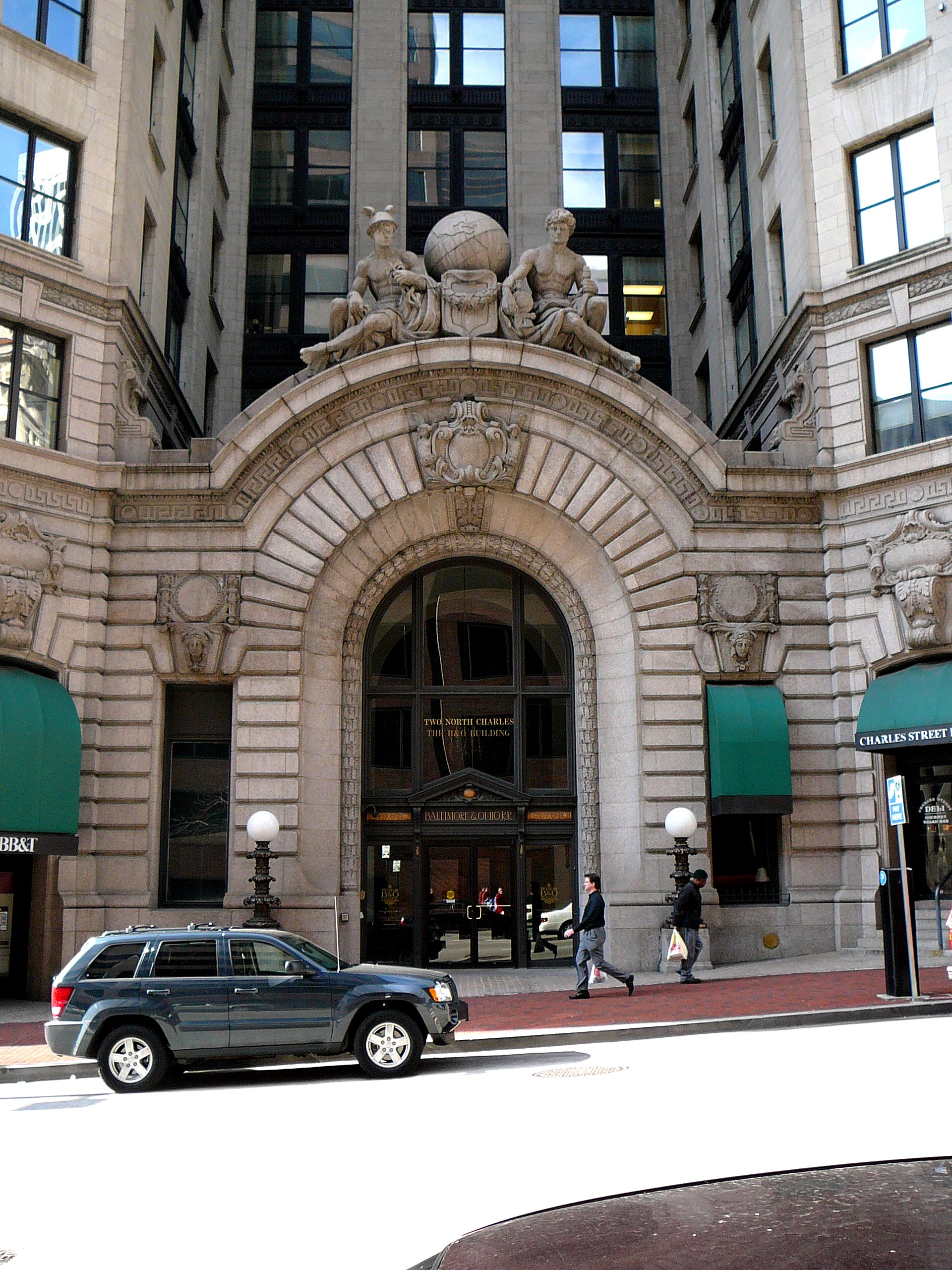 Baltimore and Ohio Railroad Offices Today